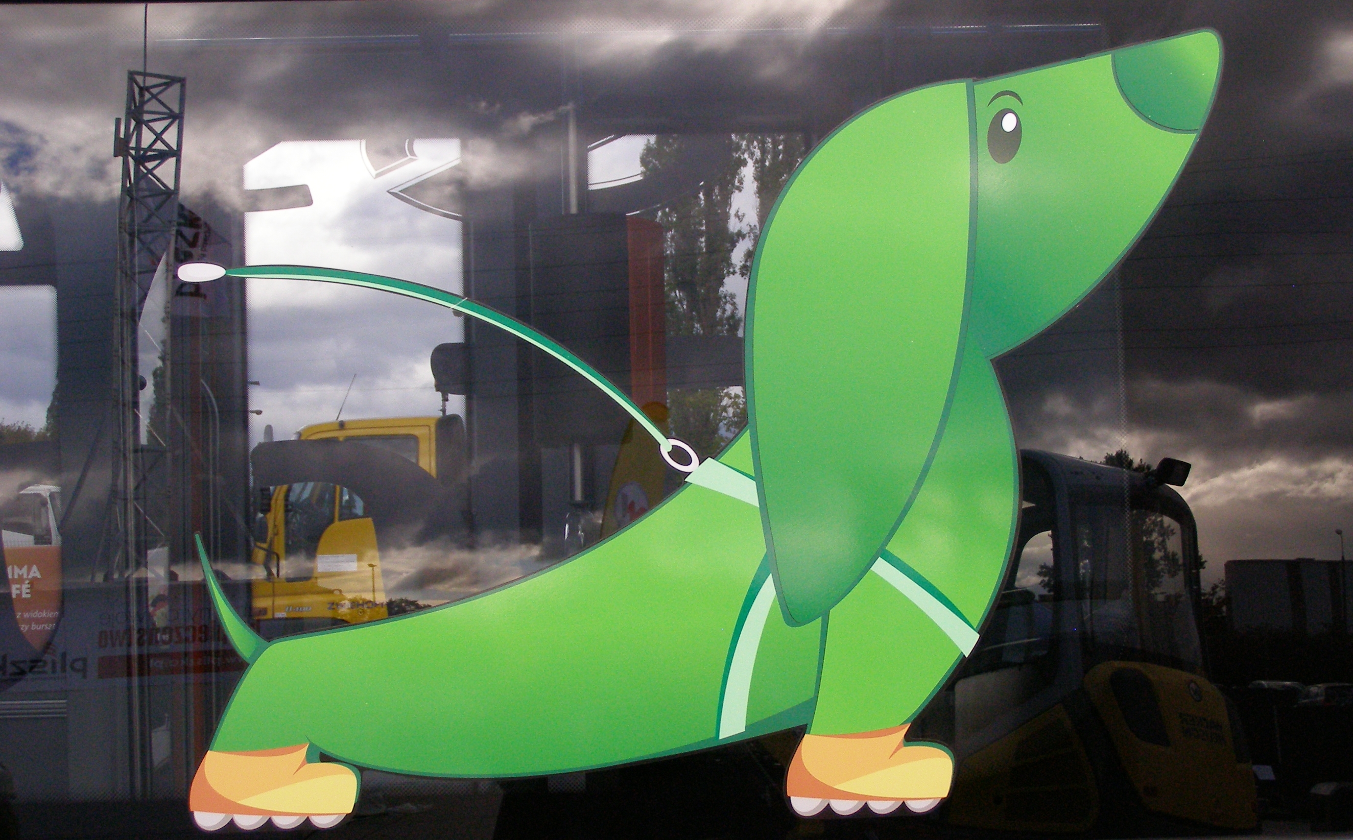 Gdańsk - International Railway Fair Trako 2013 - Solaris Tramino tram for Jena